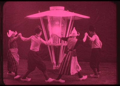 A 1919 Dutch silent film